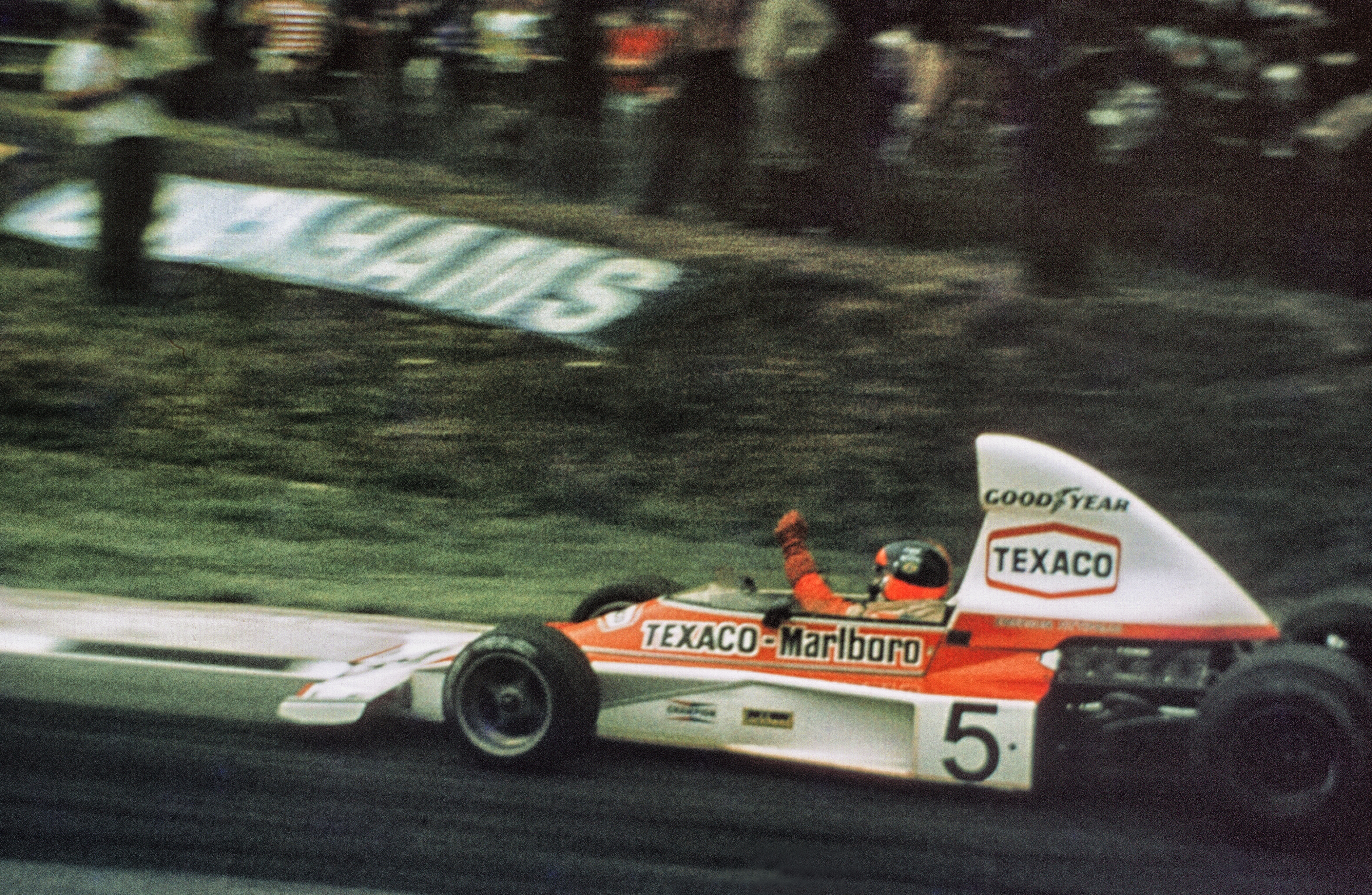 Emerson Fittipaldi at Brands Hatch 1974